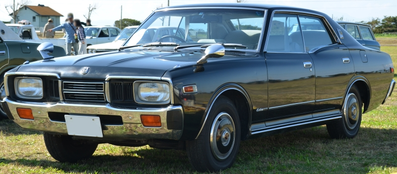 Nissan Cedric 2000 SGL-E Extra